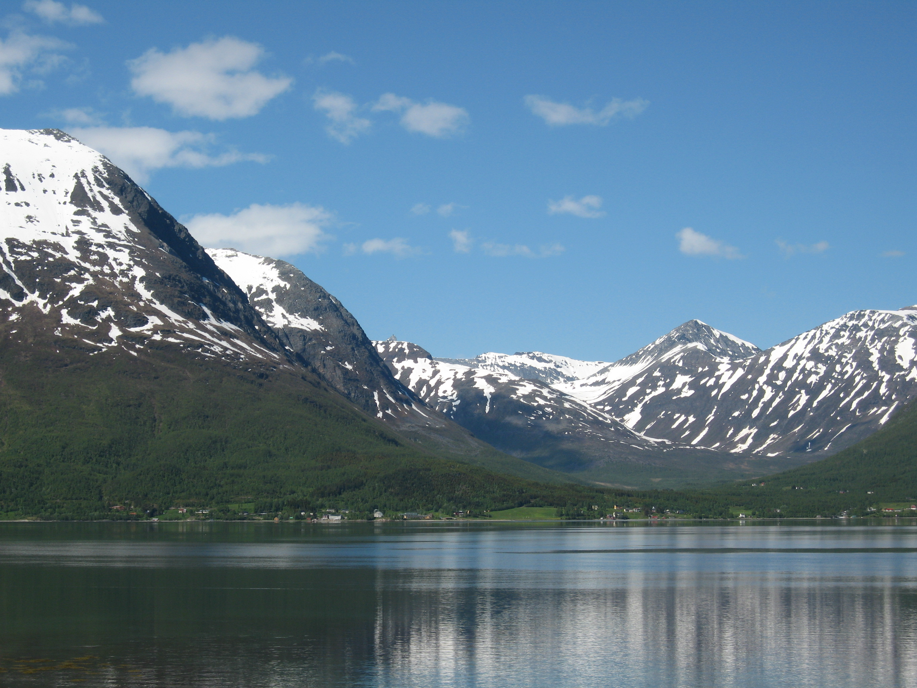 The village Sjursnes in Tromsø municipality, Norway, seen from the eastern side of Sørfjorden